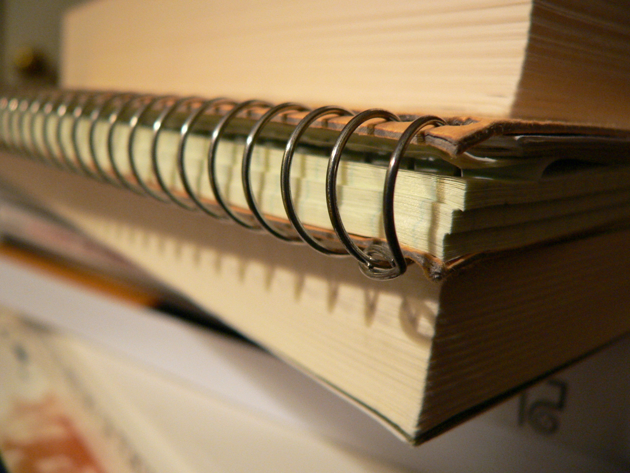 Ring bound notebook